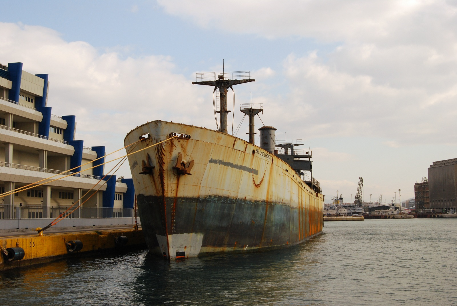 SS Hellas Liberty, IMO: 5025706, ex SS Arthur M. Huddell, one of the last surviving Liberty cargo ships, in Piraeus Harbour.